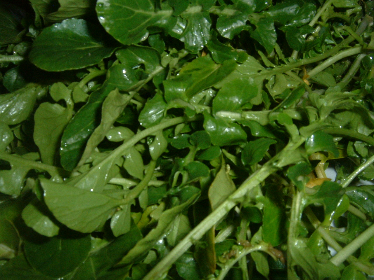 Watercress (Nasturtium officinale), a water-loving plant that is used in salads and soups.